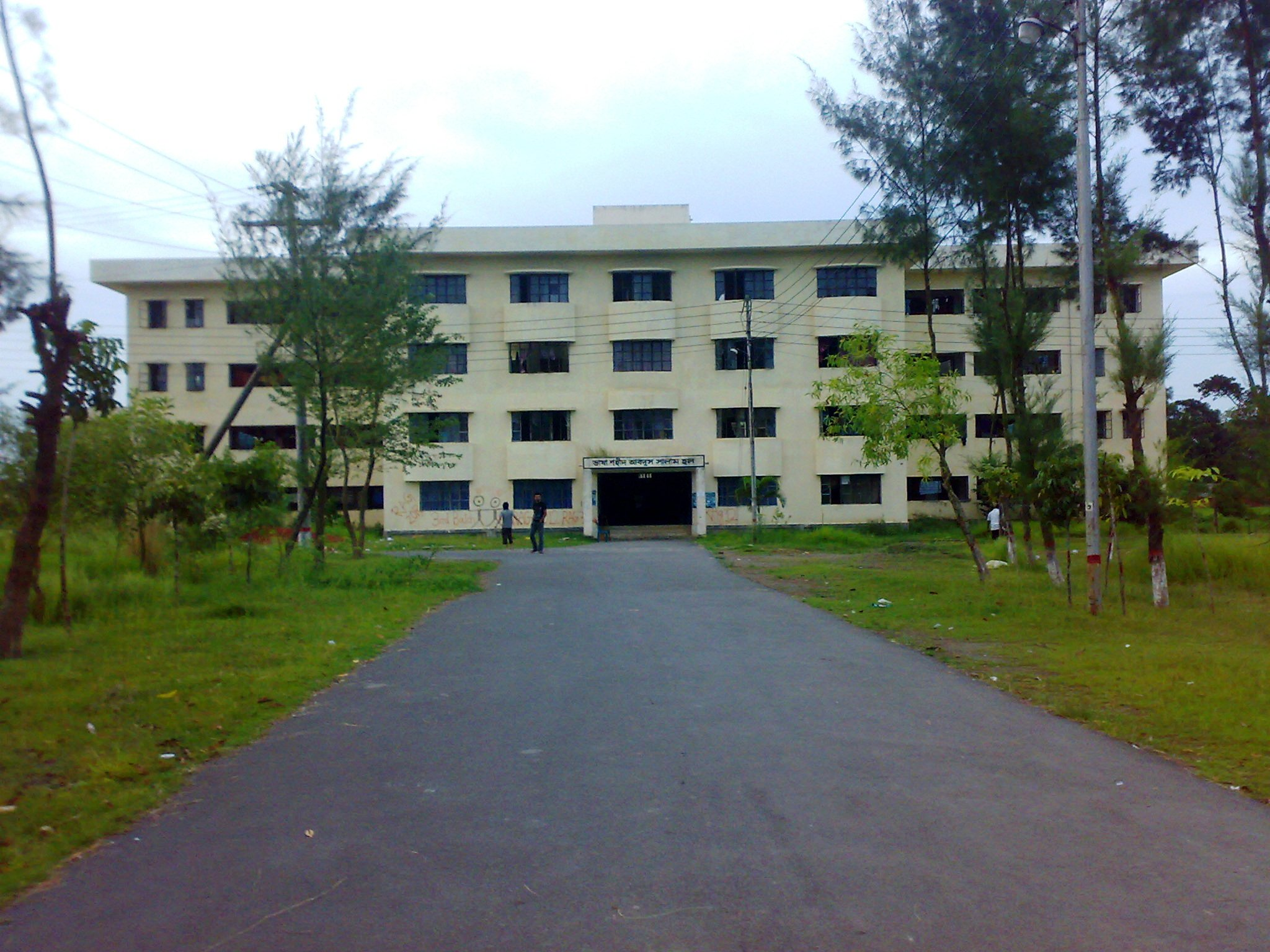 This is The first Male hall in NSTU. In this Hall 205 is special.